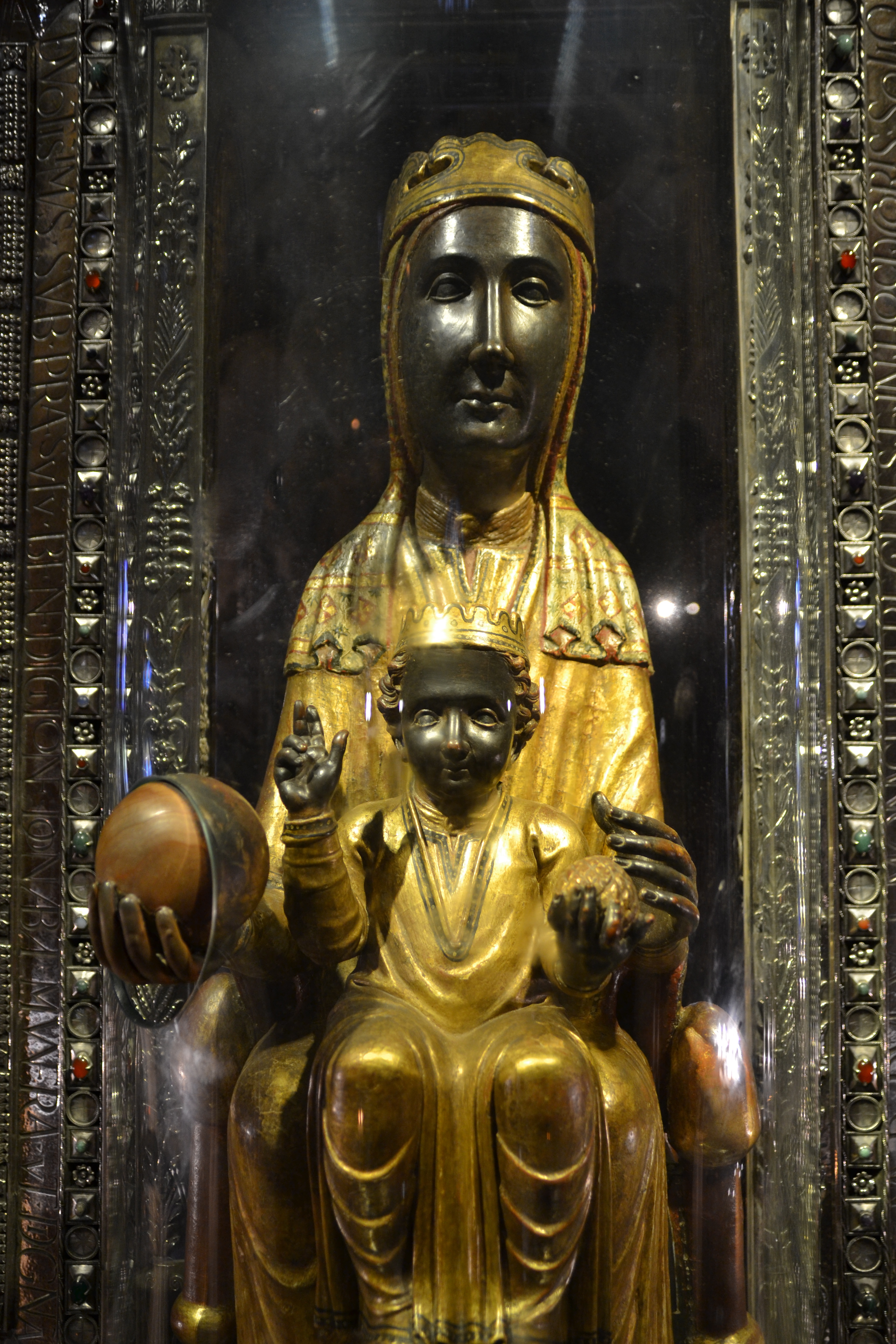 The original Black Madonna at Montserrat.